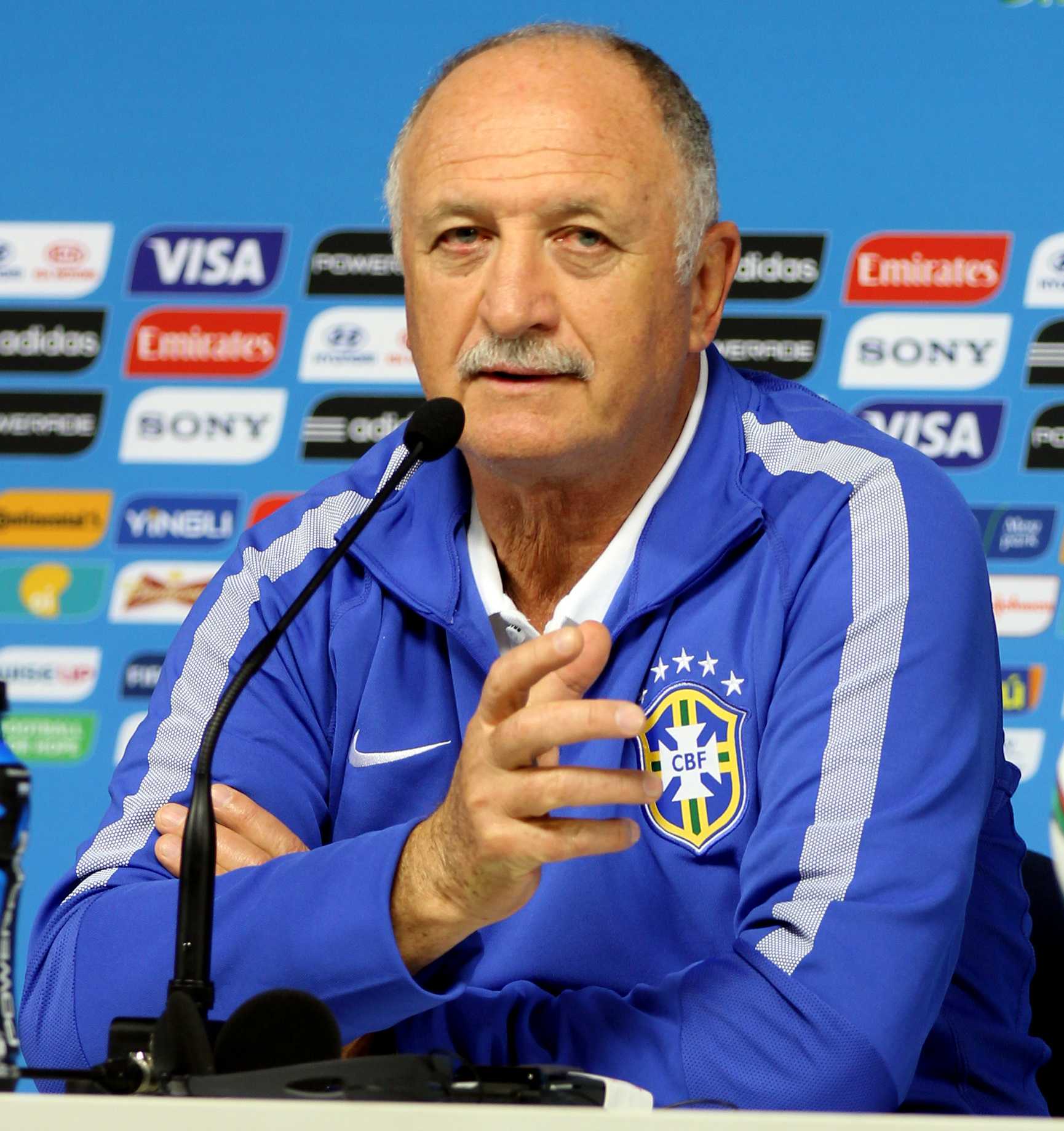 Brazil national team training for 1 day before the start of the first game of the 2014 World Cup qualifier against Croatia 2014-06-11